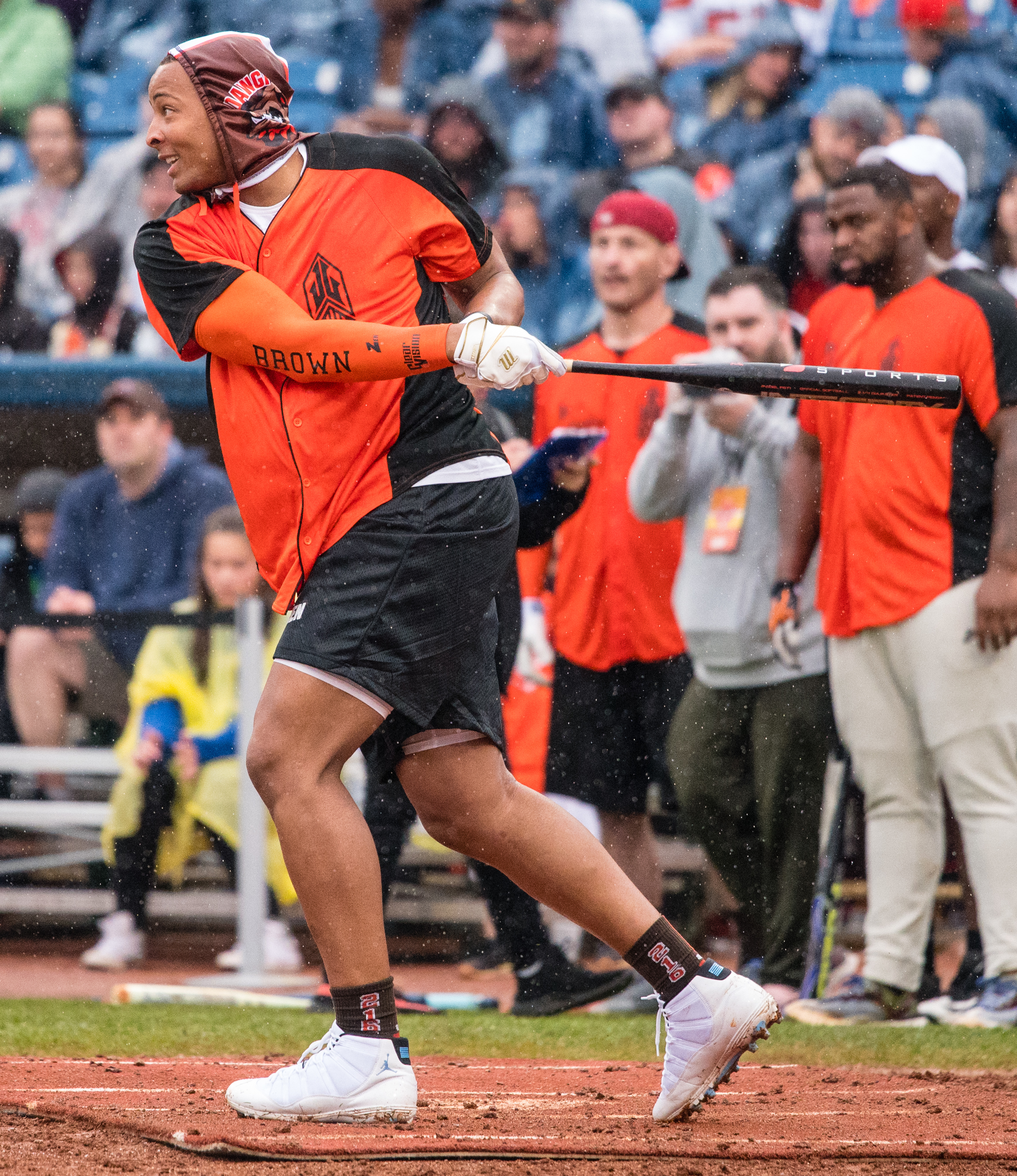 Pharaoh Brown of the Cleveland Browns swings a baseball bat during a team even on June 15, 2019.